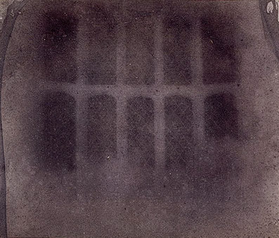 The Oriel Window, South Gallery, Lacock Abbey, photogenic drawing negative, 3 1/4 x 4 3/16 in. (8.3 x 10.7 cm), The Rubel Collection, Metropolitan Museum of Art, New York, USA. A better-known postage-stamp-size negative showing the same window has an attached annotation, in Talbot's handwriting, stating that it was taken in August, 1835. The date of this much larger negative is uncertain.